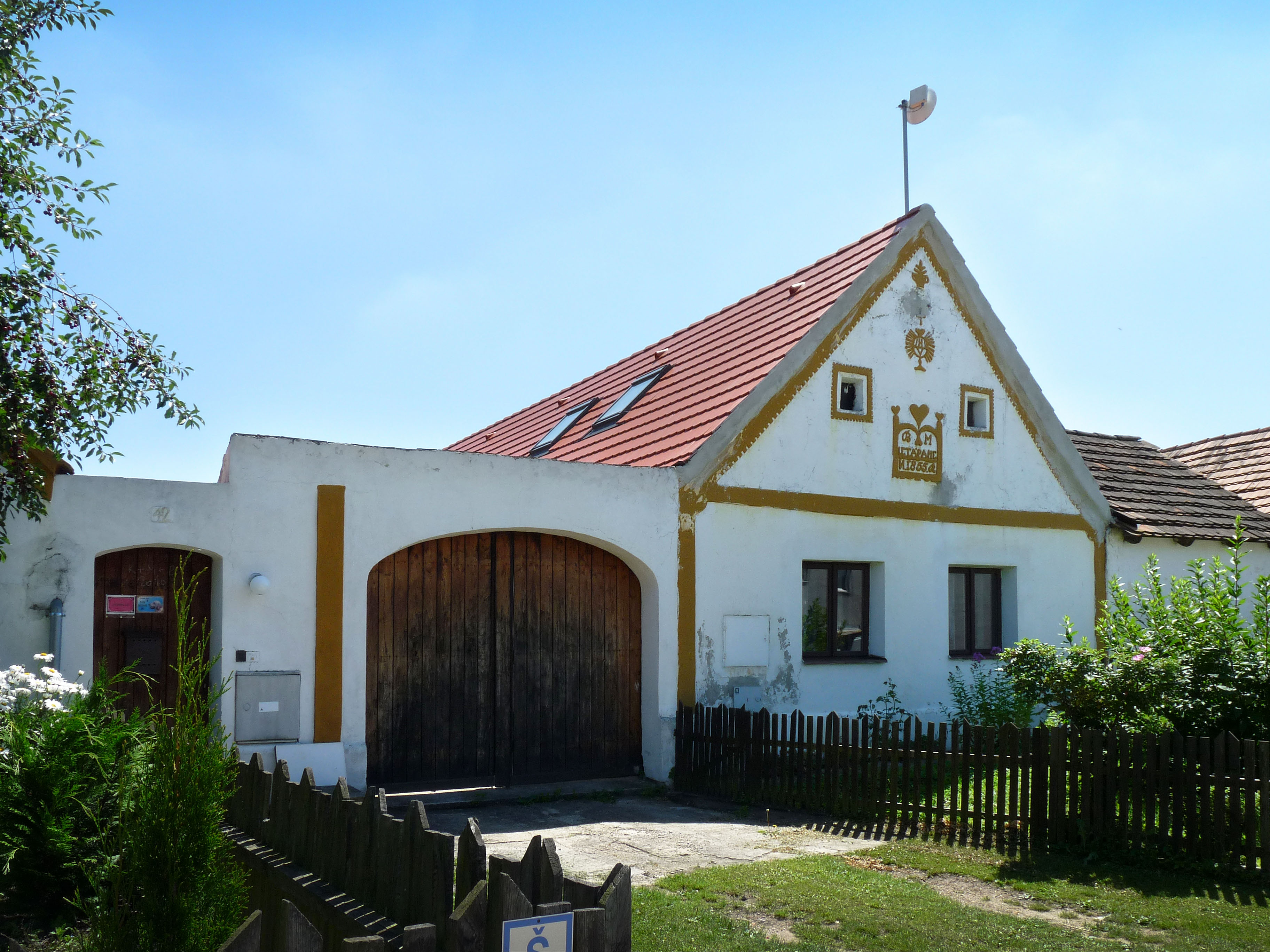 House No 42 in the village of Hosín, České Budějovice District, Czech Republic.